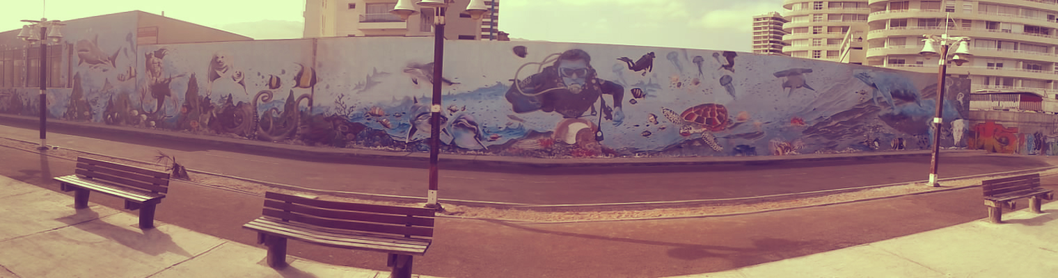 The underwater-oriented graffiti situated in Cavancha Peninsula